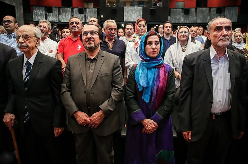 Alireza Rezadad, Fatemeh Motamed-Arya, Seyyed Mohammd Khaddem & Manouchehr Mohammadi